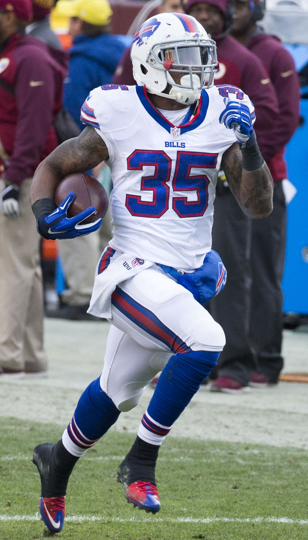 Bills at Redskins 12/20/15